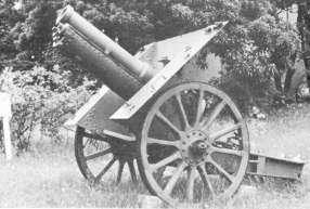 Type 99 10cm Mountain Gun, Introduced Year : 1939, Caliber : 105 mm, Barrel Length : 1.303 m, EL Angle of Fire : -3 to +42 Degrees, AZ Angle of Fire : 6 Degrees, Shell Weight : 12.34 Kg, Muzzle Velocity : 334 m/sec, Weight : 0.8 ton, Range : 7,500 m